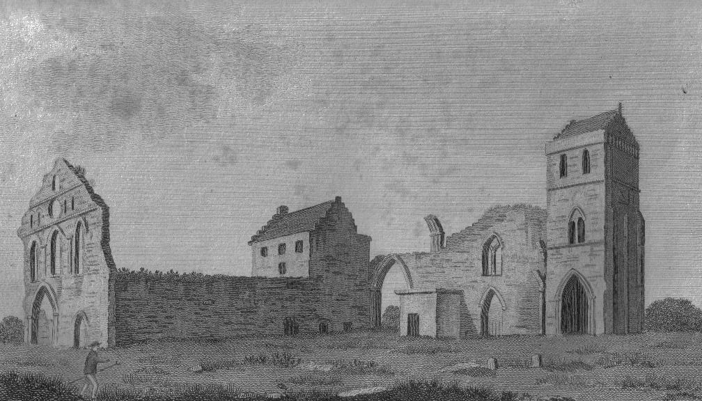 Kilwiining Abbey, North Ayrshire, Scotland in 1789